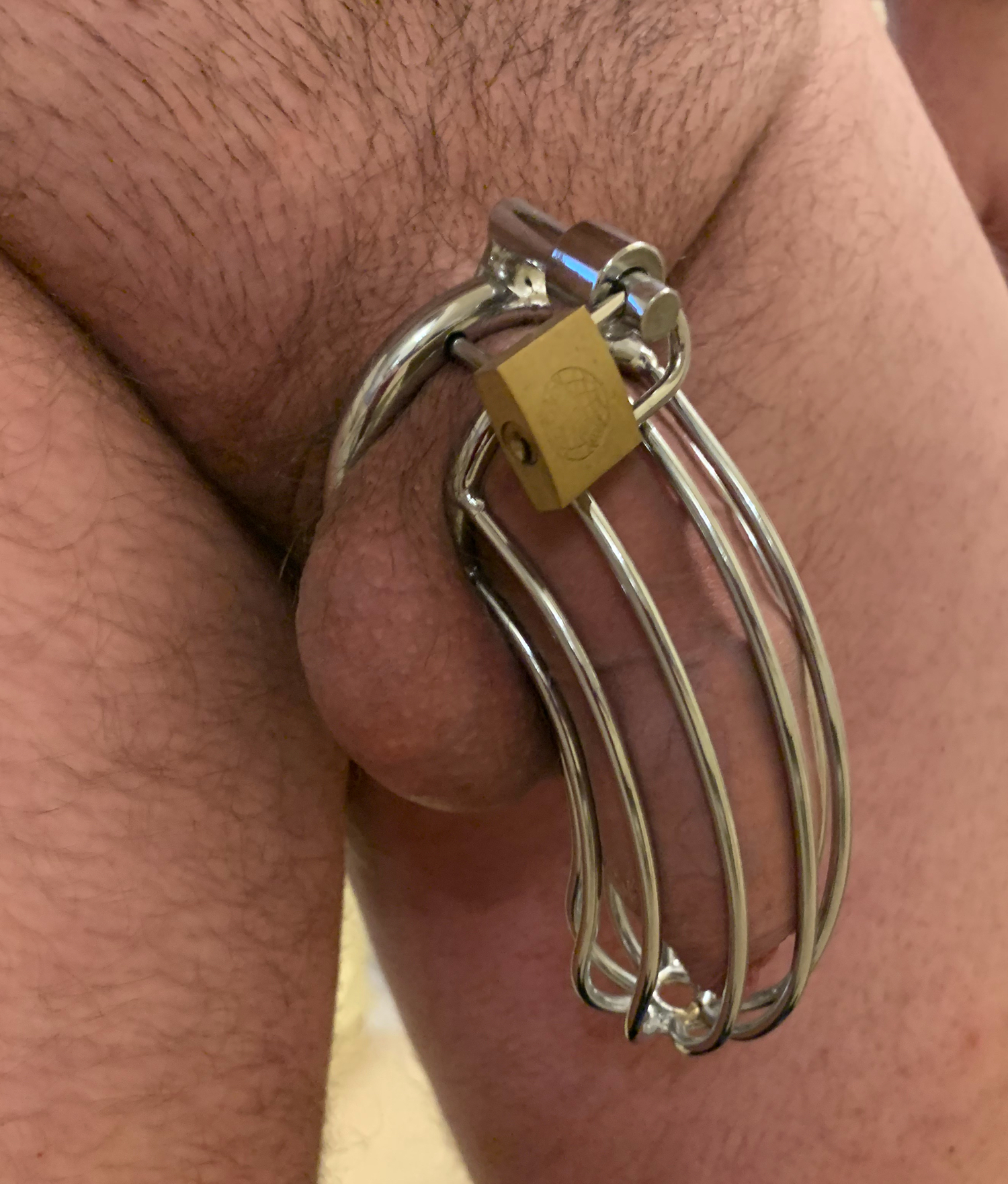 A metal chastity cage